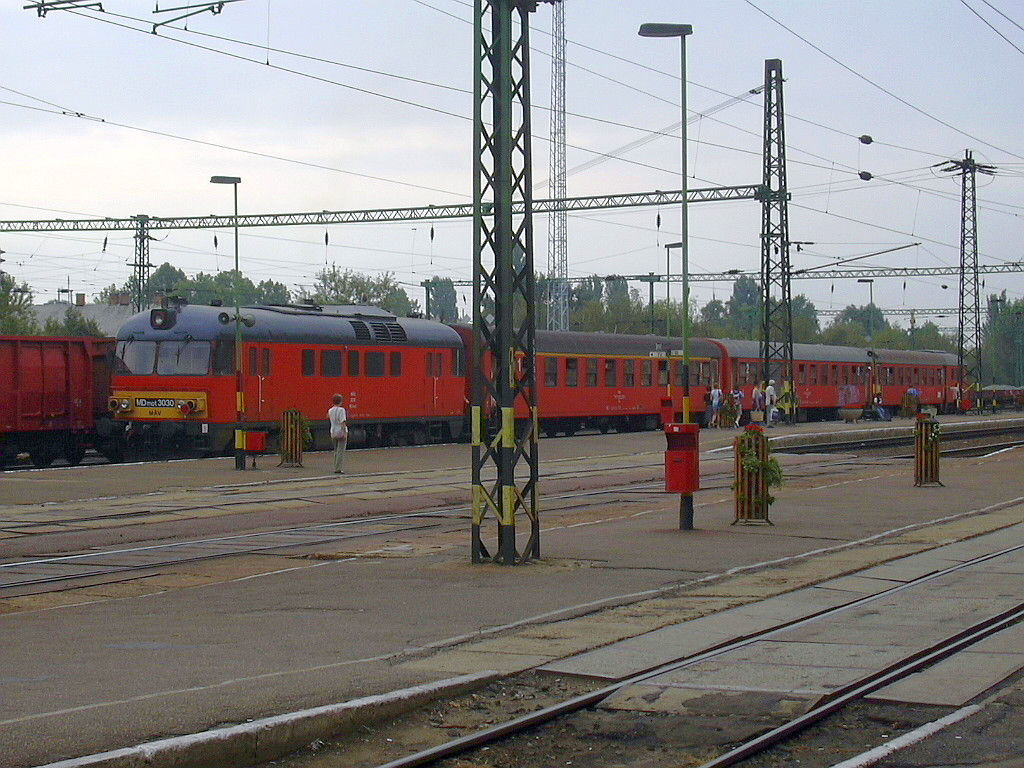 MDmot train at the Kecskemét railway station, Kecskemét, Hungary